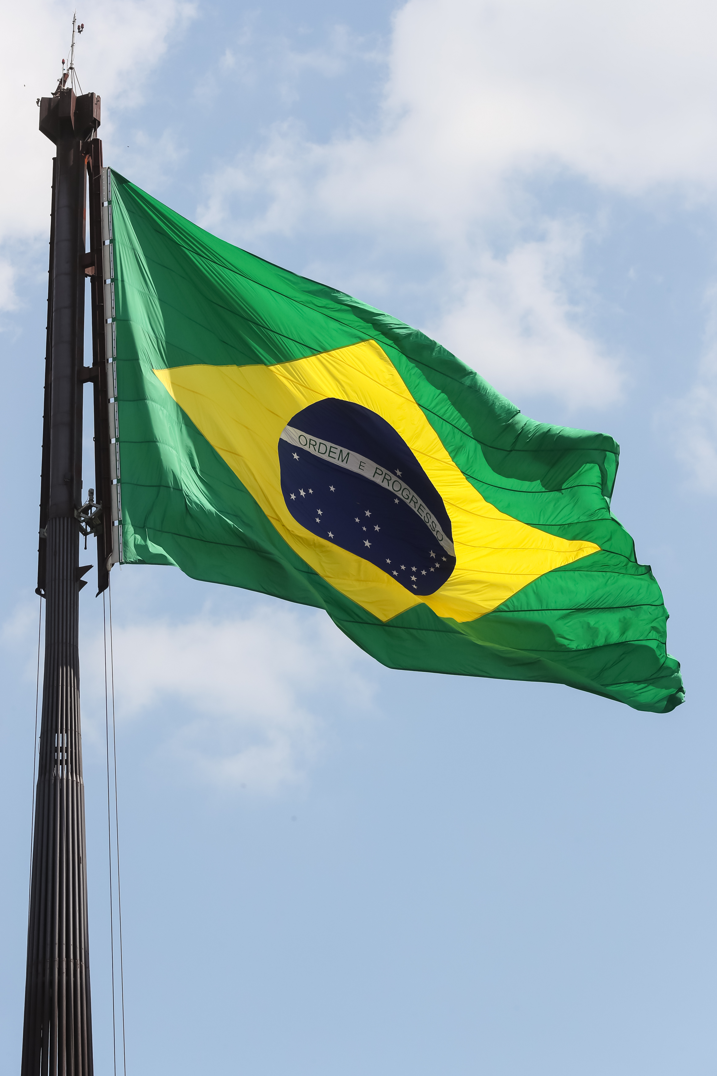 (Brasília - DF, 13/11/2019) Encontro com o Primeiro-Ministro da República da Índia, Norenda Modi. Foto: Isac Nóbrega/PR